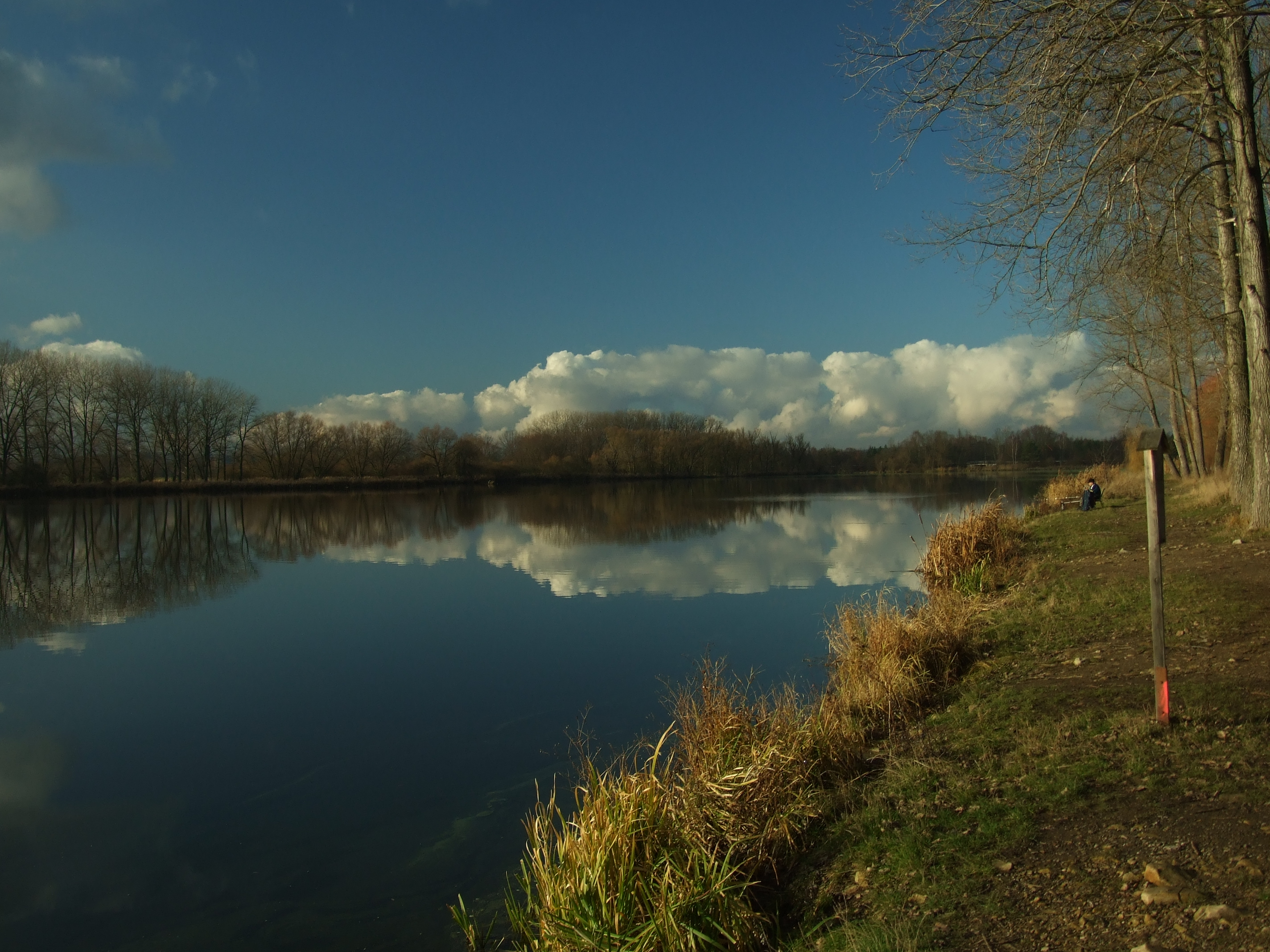 Turyňský rybník pond located between Srby and Kamenné Žehrovice villages, Central Bohemian Region, CZ help